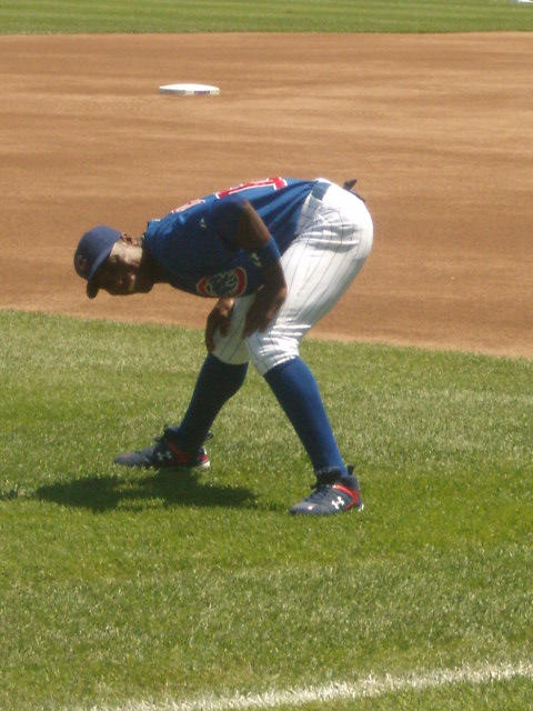 Description soriano at batting practice Dateaugust 2008SourceI created this work entirely by myself.AuthorWjmummert (KA-BOOOOM!!!!) 03:35, 15 August 2008 . . Wjmummert . . 480×640 (225 KB) soriano at batting practice